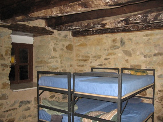 camino de santiago